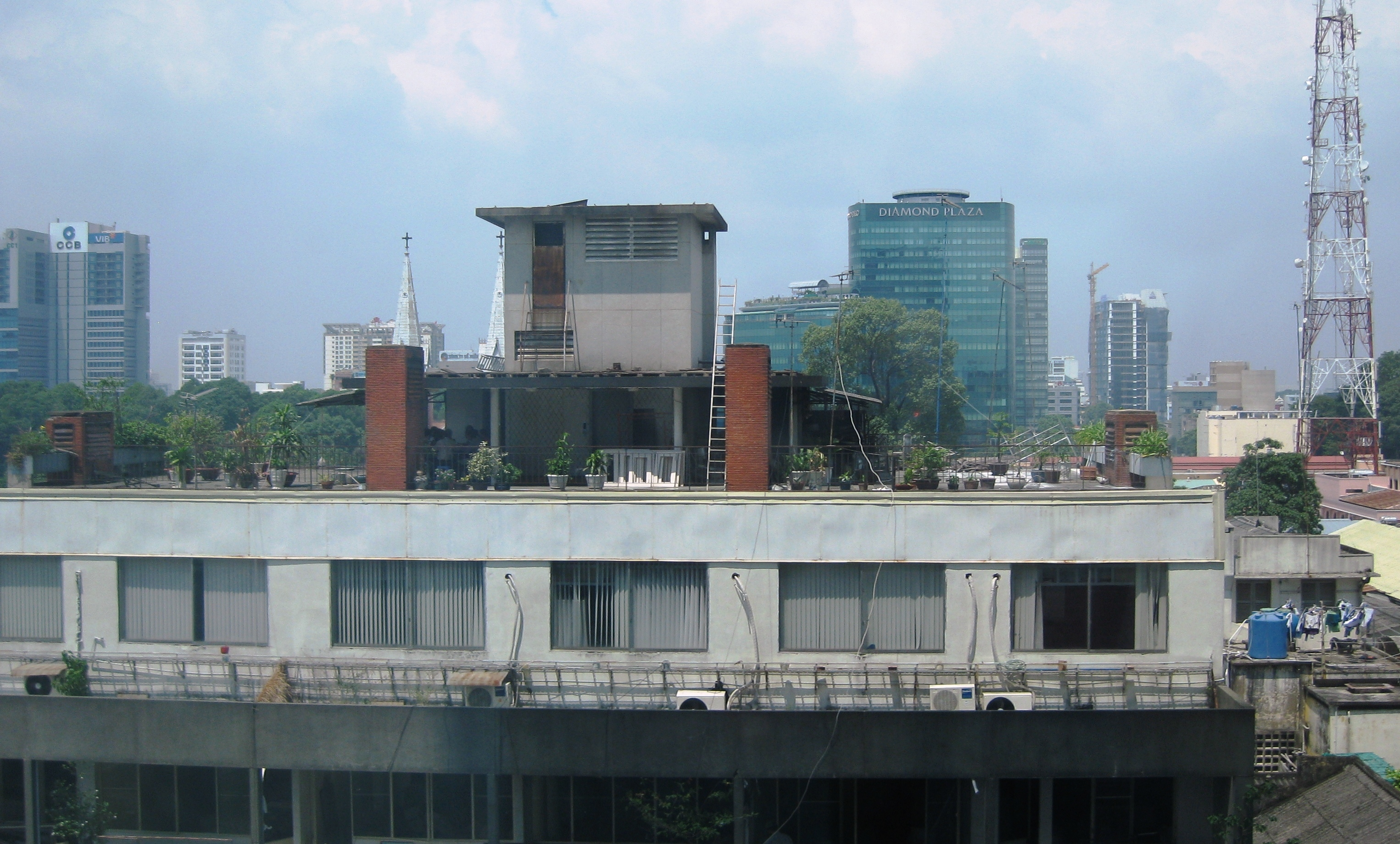 1 MArch 2012 photo of the rooftop in ex Gia Long street of the Pitmann appartments, where lived CIA head and where the famous H Van Es photo was taken of an Air America helicopter evacuating vietnamese